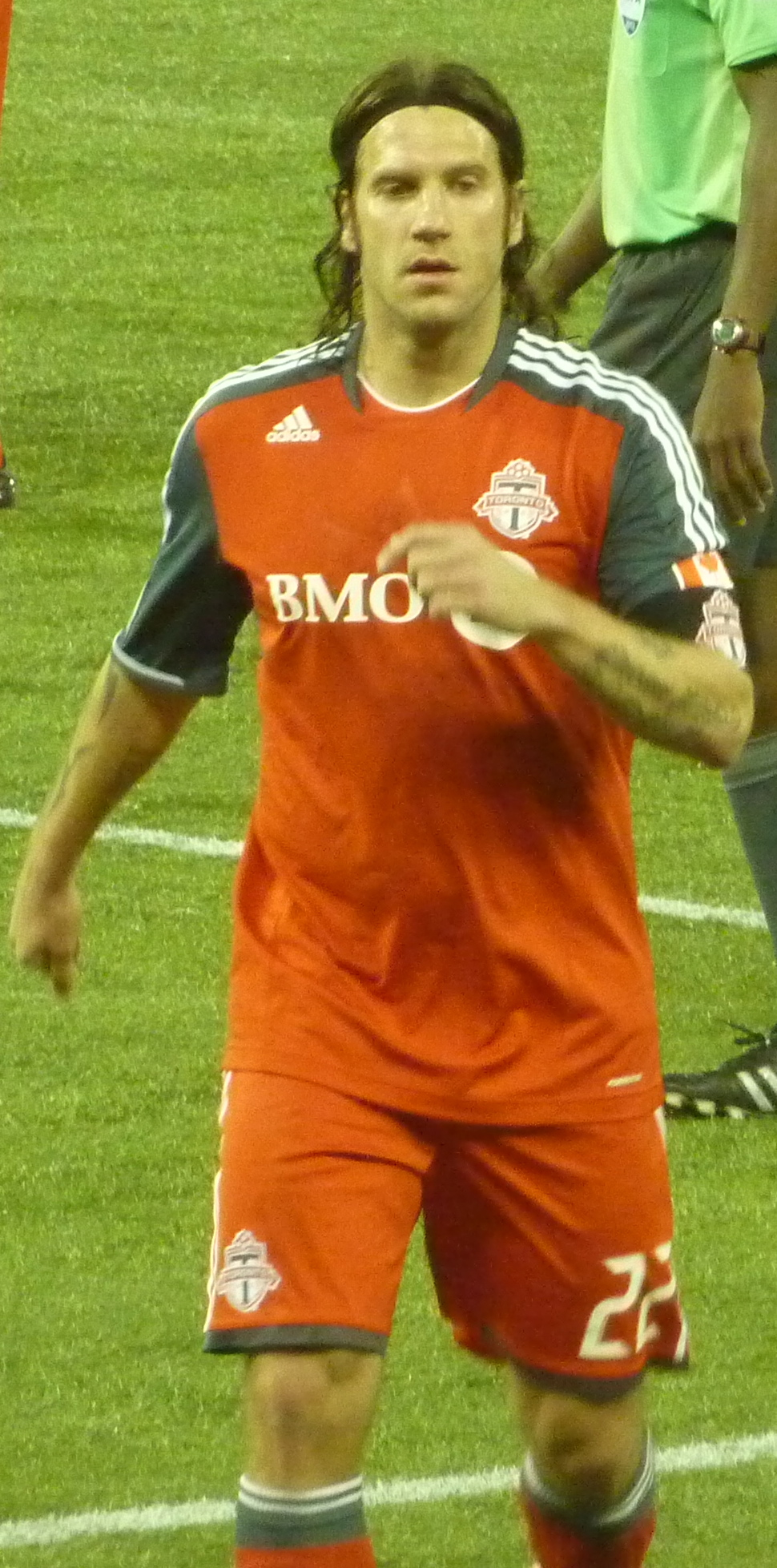 frings vs. la at rogers center march 7 2012